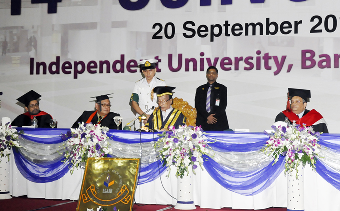 President speech in 14th convocation